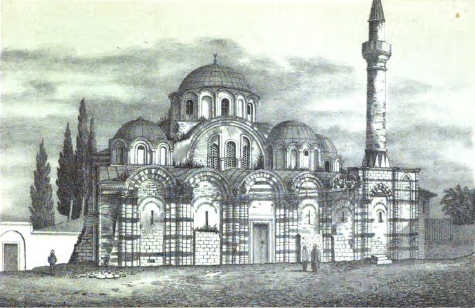 Byzantinai meletai topographikai (1877) Author: Paspatēs, Alexandros Geōrgiou, 1814-1891. [from old catalog] Subject: Inscriptions, Greek Year: 1877 Possible copyright status: NOT_IN_COPYRIGHT Language: English Digitizing sponsor: Google Book contributor: Oxford University Collection: europeanlibraries